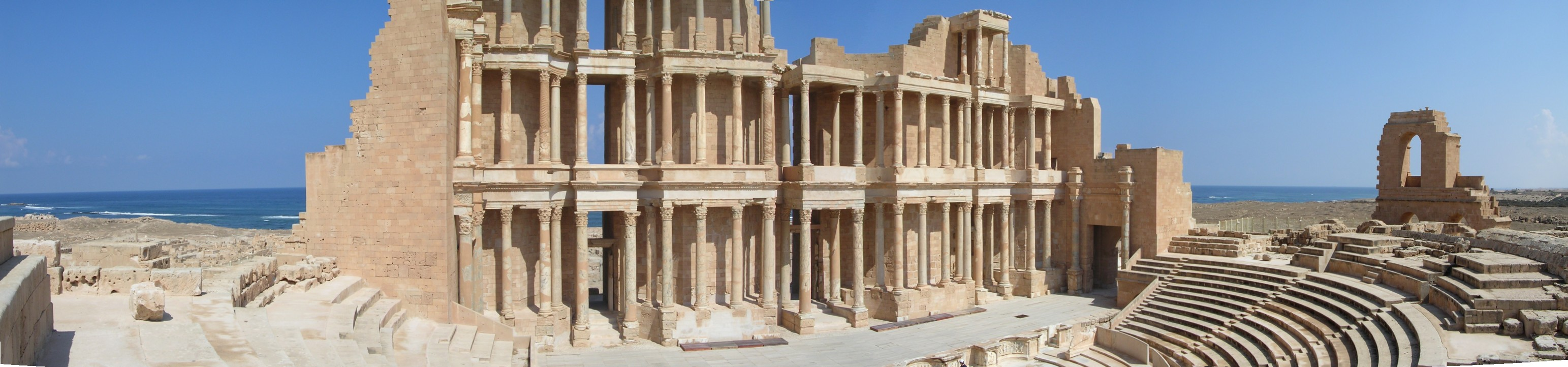 Picture of the theatre of the Roman city of Sabratha in Libya taken the 14th of October 2006